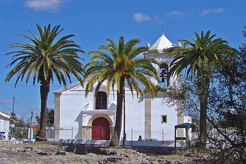 Church of Santa Maria do Castelo, Álcacer do Sal, Portugal.